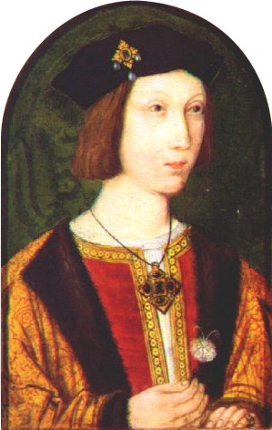 Depicted person: Arthur Tudor (1486-1502), Prince of Wales was the first son of King Henry VII of England and Elizabeth of York. This portrait is regarded as the only surviving contemporary portrait of the sitter.